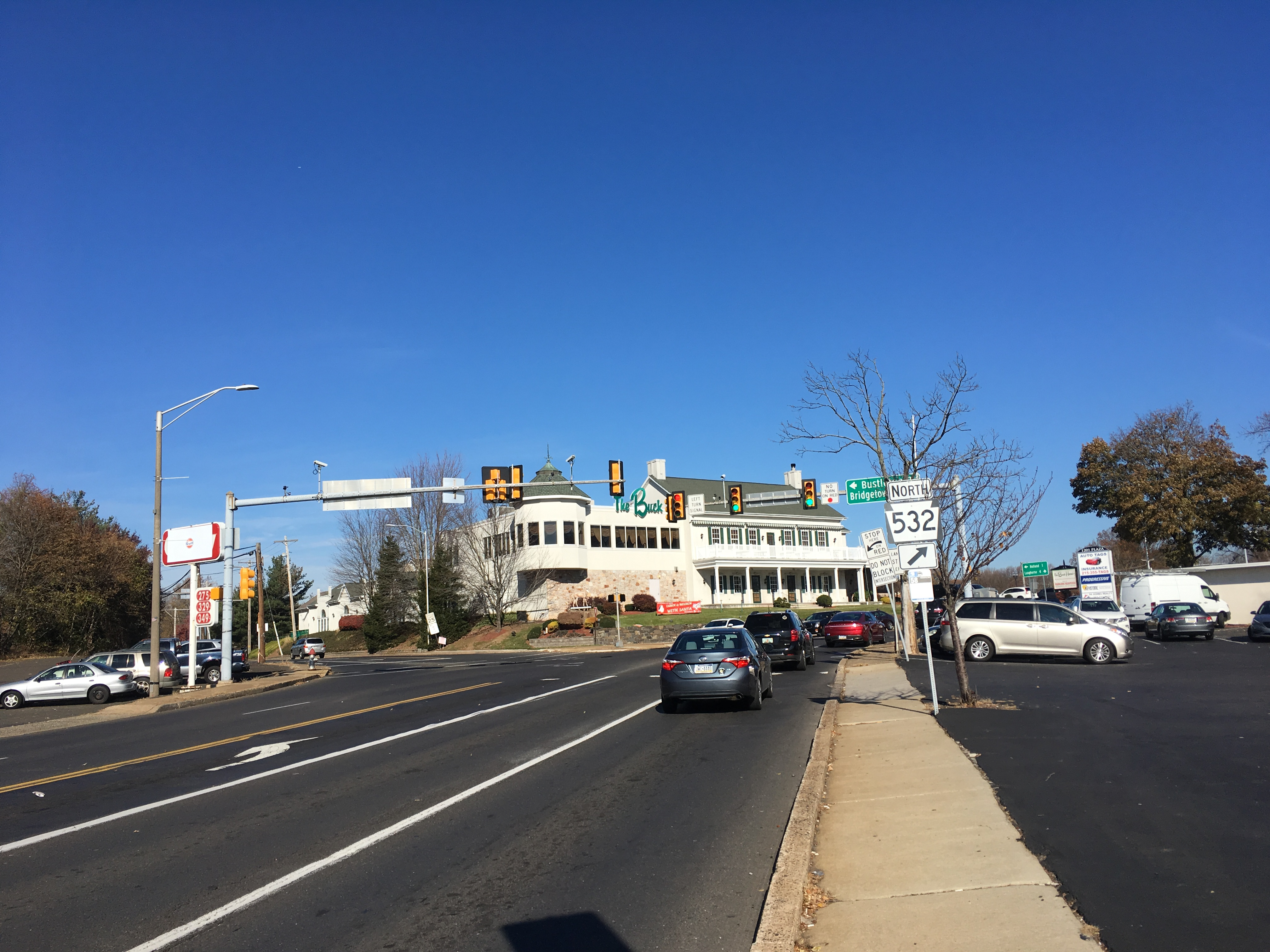 Northbound Pennsylvania Route 532 at the split from Bustleton Pike and the turn into Bridgetown Pike in Feasterville, Pennsylvania